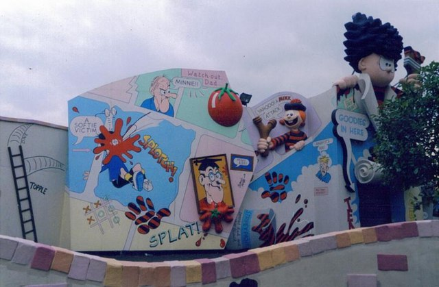 Beanoland at Chessington One of the themes, Beanoland at Chessington (Zoo).